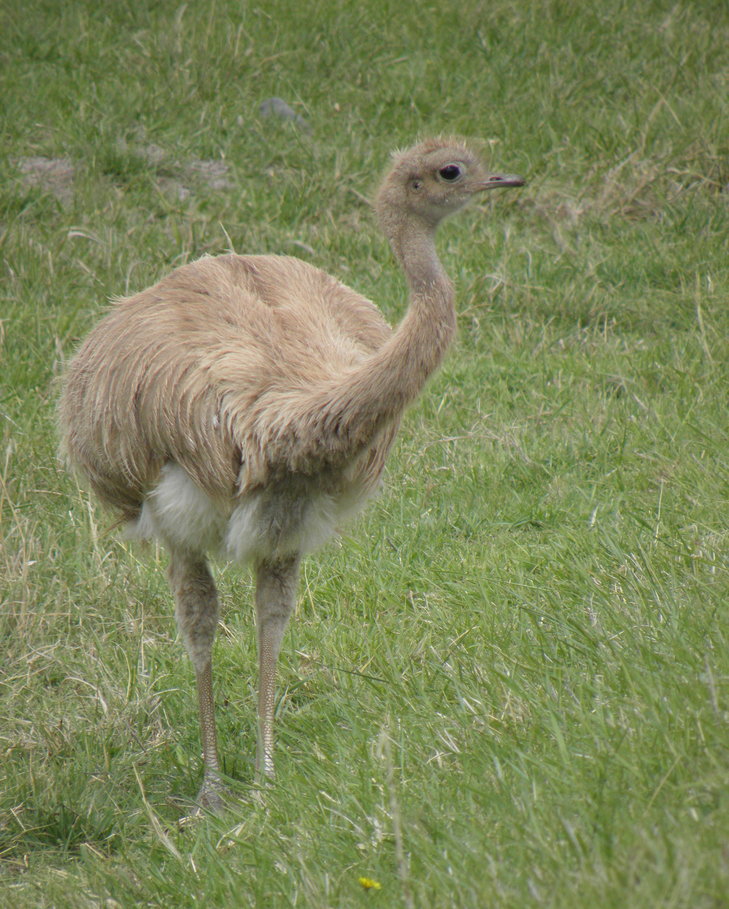 Patagonian Lesser Rhea